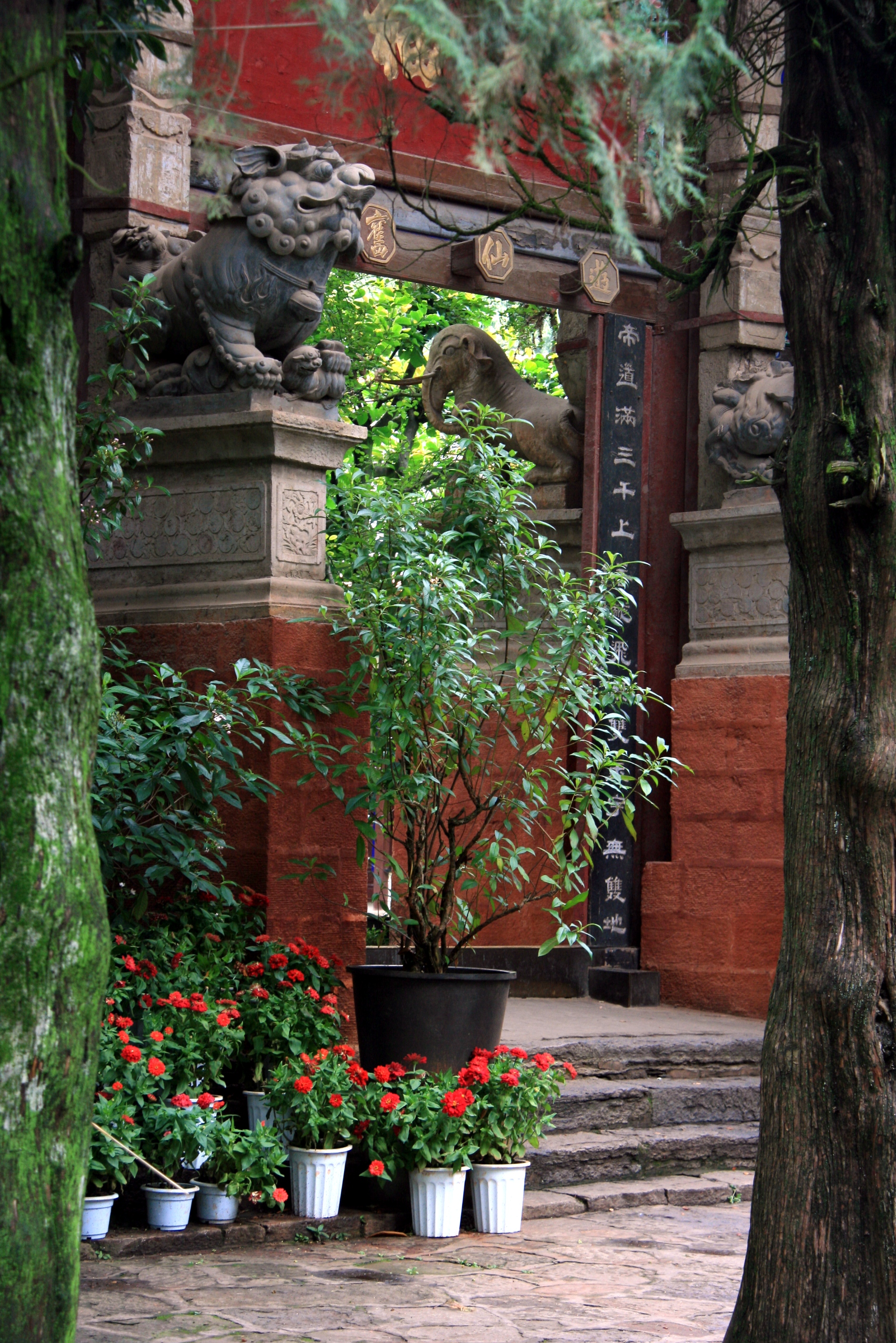 Photograph of the entrance gate to the Golden Temple, east of Kunming, Yunnan Province, China